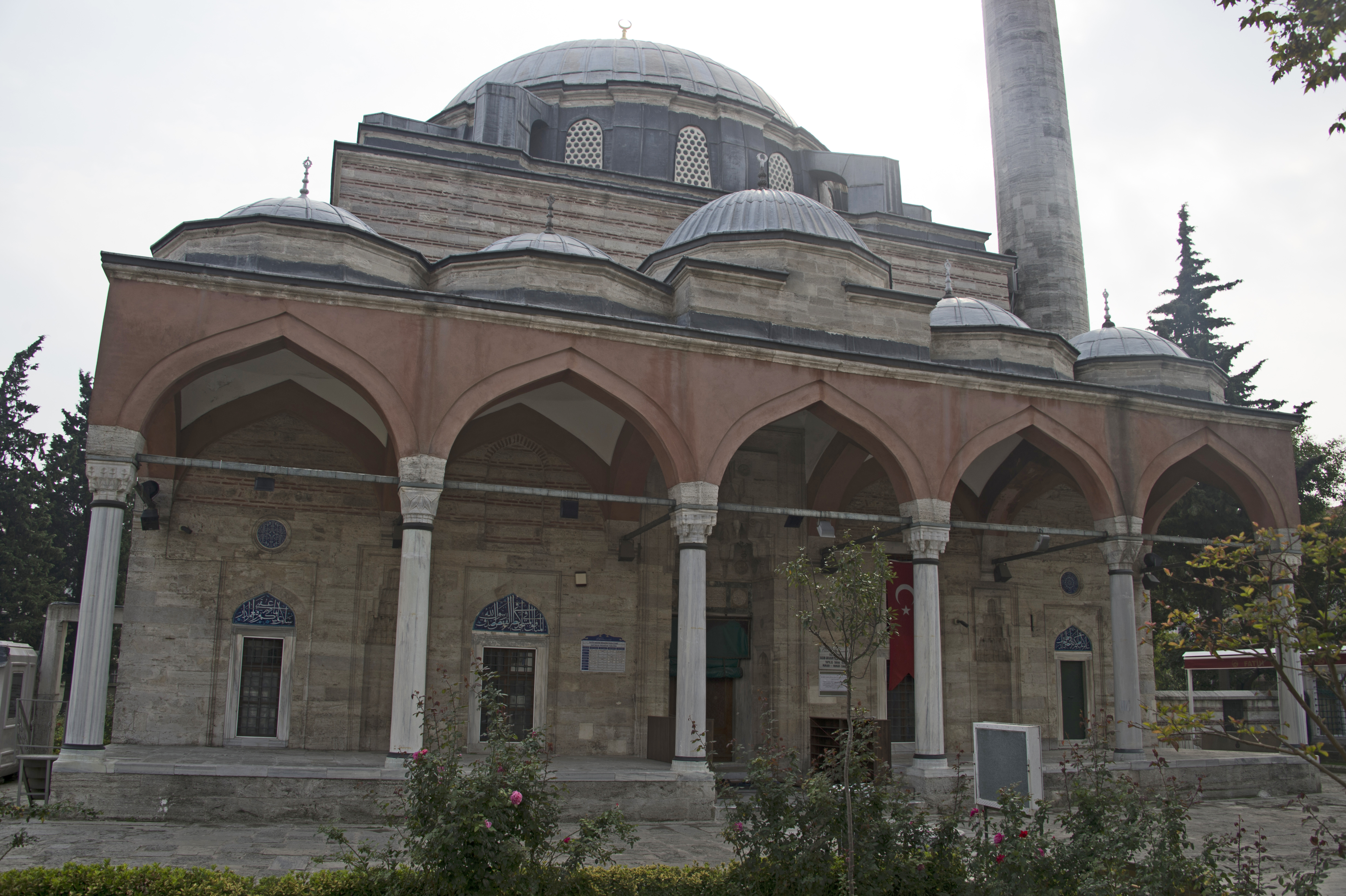 Five domed bays with above the entrance a fine stalactited baldachino